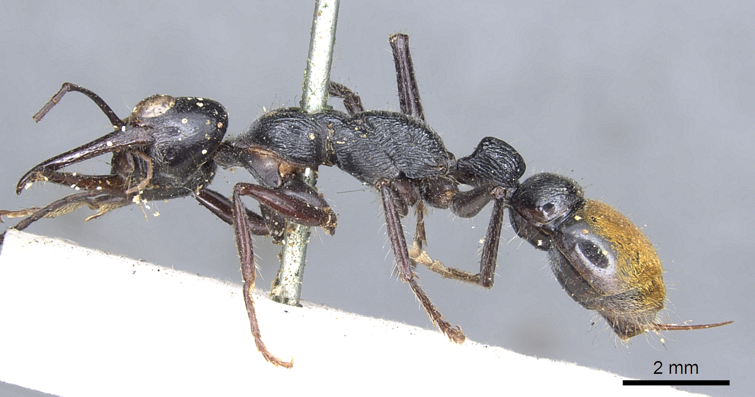 Closeup sideview of M. mandibularis